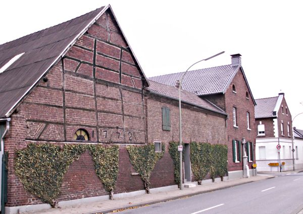 Four-roof farmhouse-ensemble in Germany